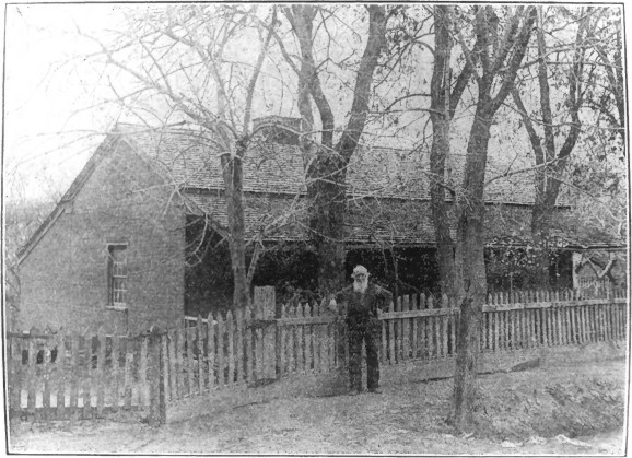 John Steele in front of the southeast corner of his home.